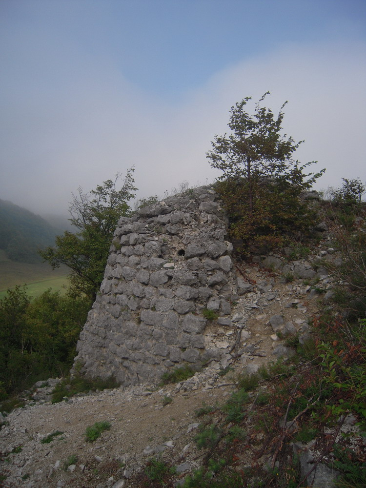 Greben fortress